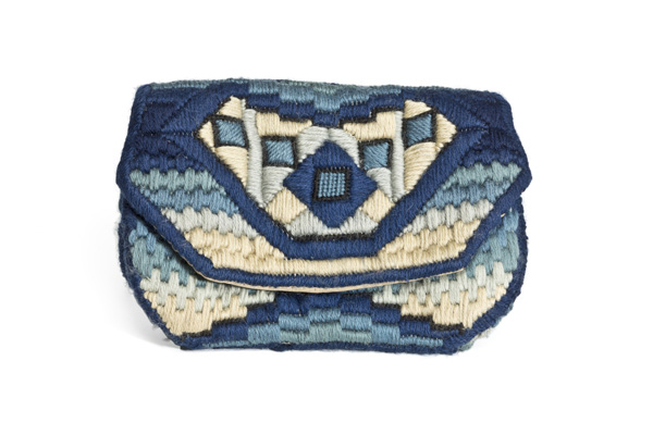 Portfolio-type purse embroidered in various shades of blue and ivory wool, forming Art Deco-style geometric decoration. Made in France.